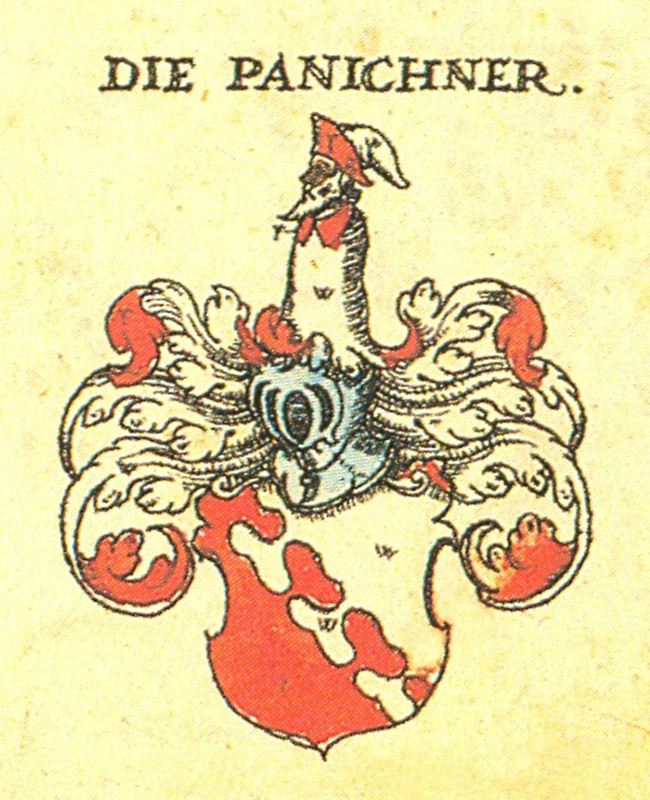 Coat of arms of Panicher